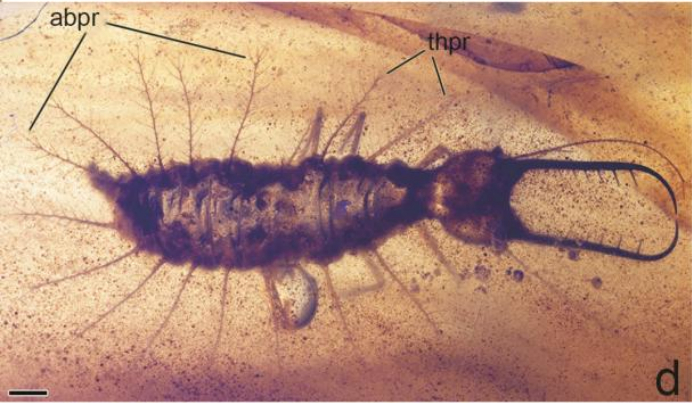 Supplementary Figure 1. Diversity of the larvae of Myrmeleontiformia in mid-Cretaceous Burmese amber. D) Cladofer huangi holotype, NIGP152466: habitus Abbreviations: abpr, abdominal processes; thpr, thoracic processes. Scale bar: 0.5 mm.